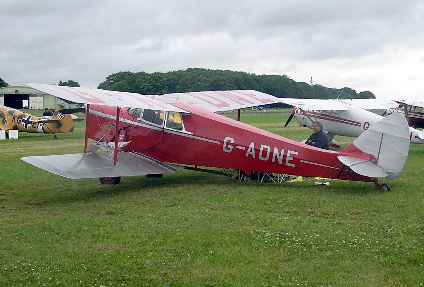 de Havilland DH87B Hornet Moth (UK registration G-ADNE, year of build 1936) at Kemble Airfield, Gloucestershire, England. Photographed by Adrian Pingstone in July 2005 and released to the public domain.